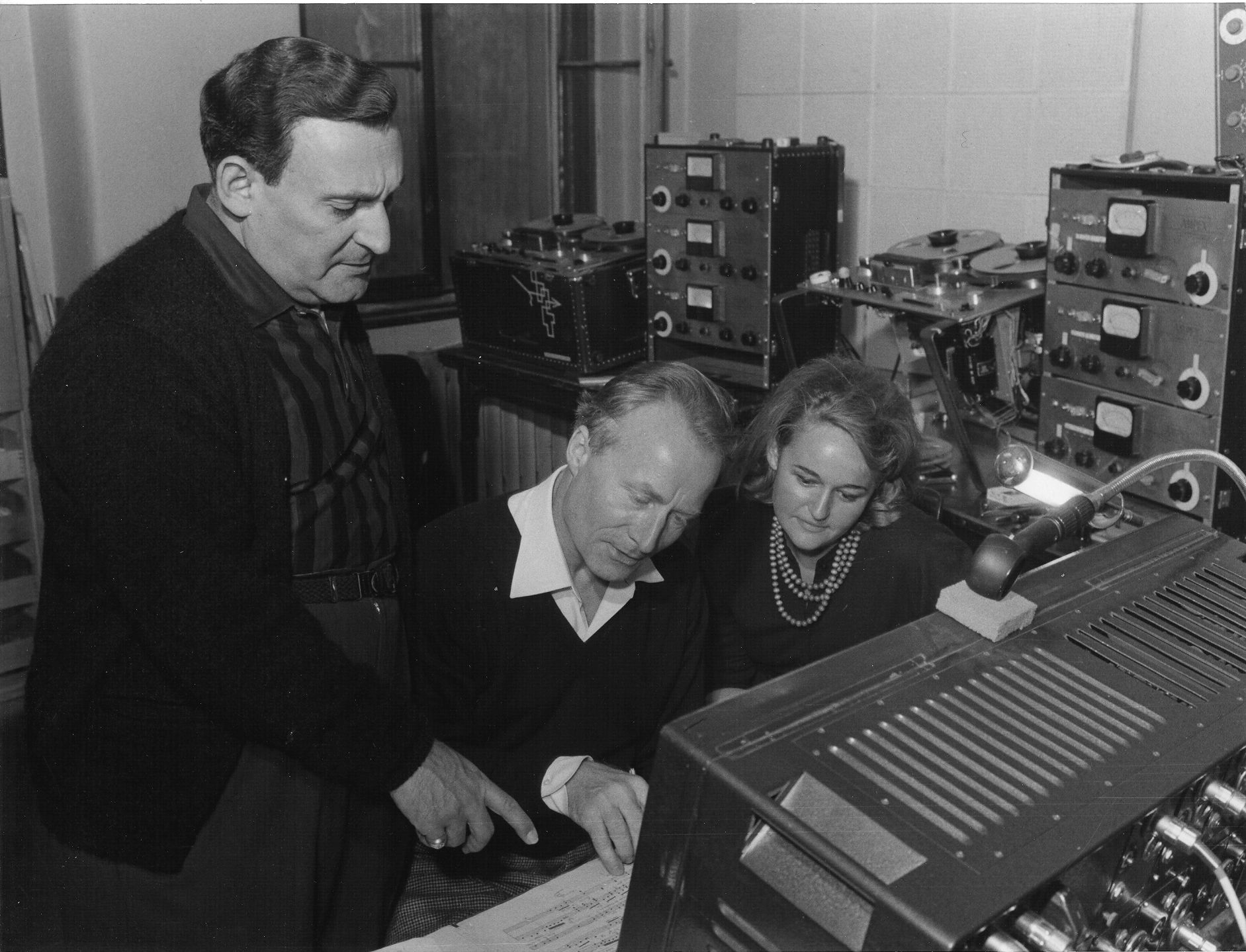 The picture shows two Ampex 350 3-channel tape recorders, the first of which Hellmuth Kolbe claims to have received in 1953, and in the foreground most possibly a portable audio “processor” with XLR connectors at its backside, probably an American military style mixing console. This equipment could have been installed either in RWR premises, in a Viennese Concert House, or in the Wiener Musikverein. The picture actually is from a series of recordings for CBS in 1964, with American tenor Richard Tucker (1913-1975, left), conductor Pierre Dervaux (1917-1992, middle) and apparently Tucker’s wife Sarah (?–1975, right) in the Vienna Concert House (Orchestra: The Vienna State Opera Orchestra).